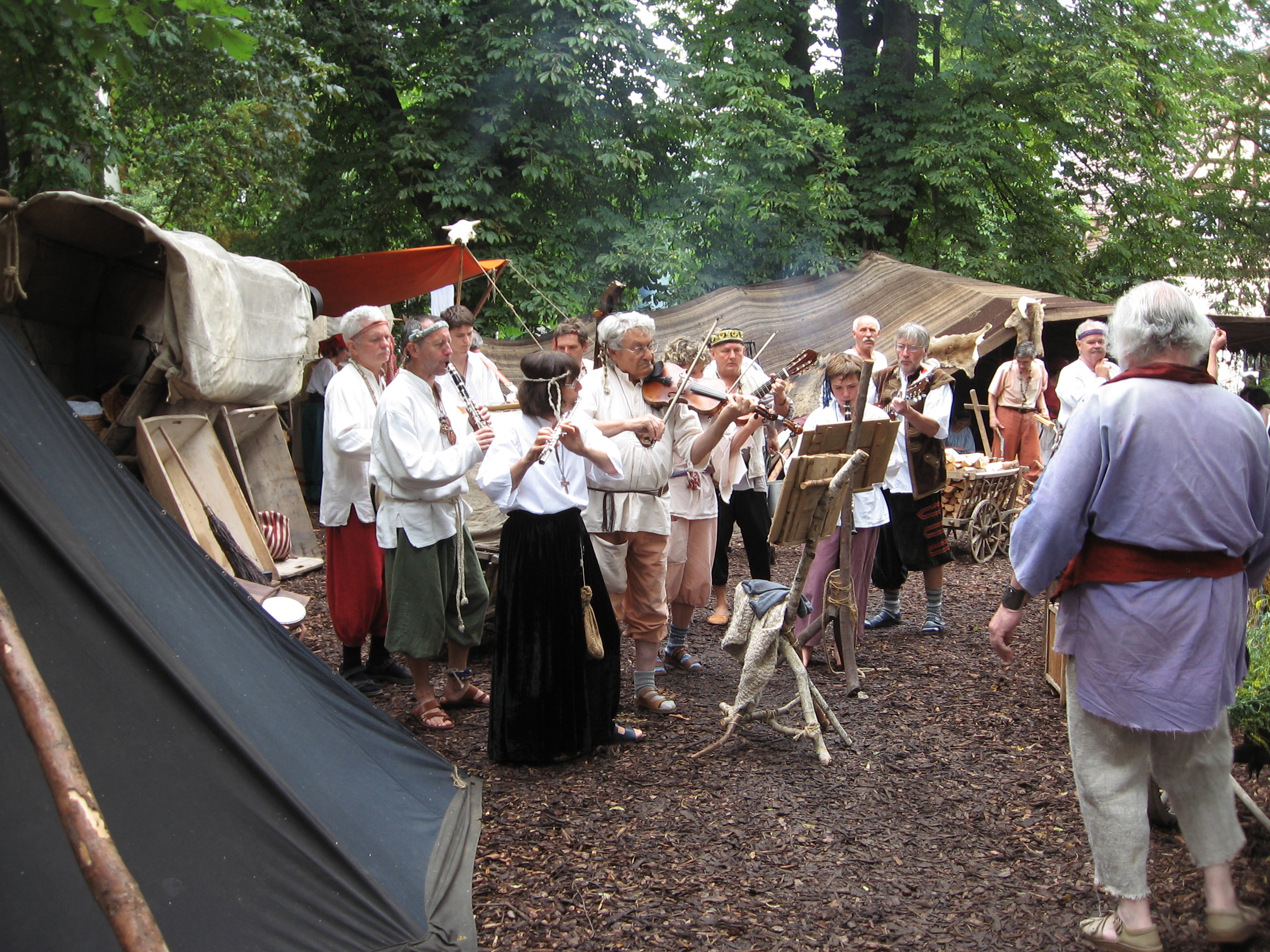 Zigeunerlager der Altdorfer Wallensteinfestspiele Personality rights warning Although this work is freely licensed or in the public domain, the person(s) shown may have rights that legally restrict certain re-uses unless those depicted consent to such uses. In these cases, a model release or other evidence of consent could protect you from infringement claims.